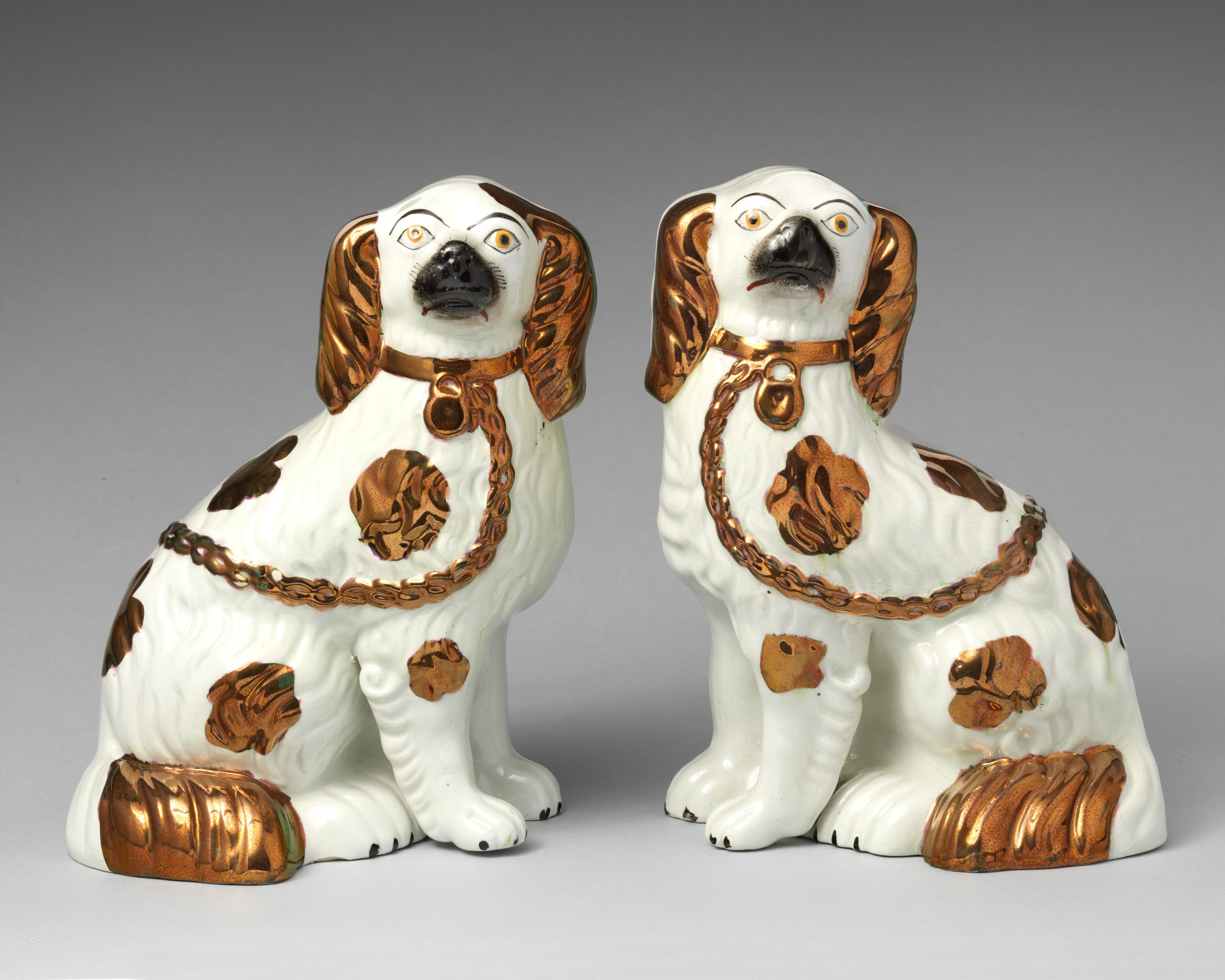 British, Staffordshire; Figures; Ceramics-Pottery